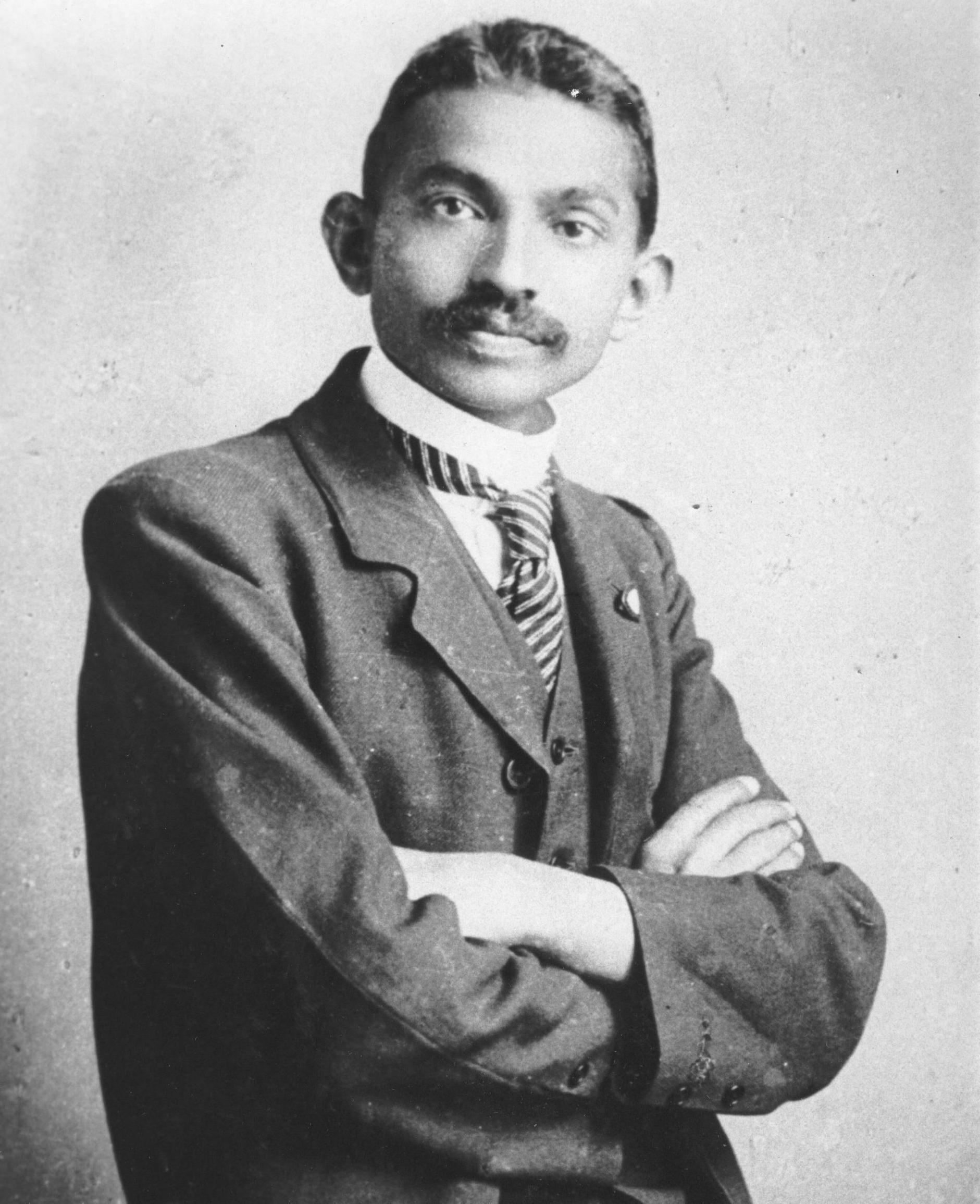 Gandhi as a lawyer in South-Africa, 1906.